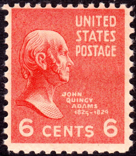 US Postage Stamp: John Quincy Adams, Issue of 1938, 6c